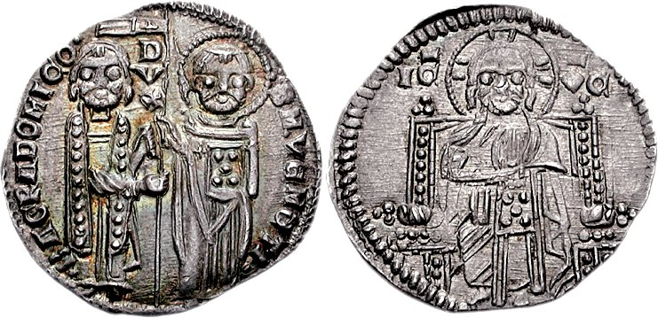 Italy, Venice. Bartolomeo Gradenigo. 1339-1342. AR Grosso (Matapan) (2.17 g, 9h). Doge and St. Mark standing facing, holding banner between them Christ enthroned facing, IC XC across field. CNI VII 11; Papadopoli 2; Paolucci 2. EF, toned.